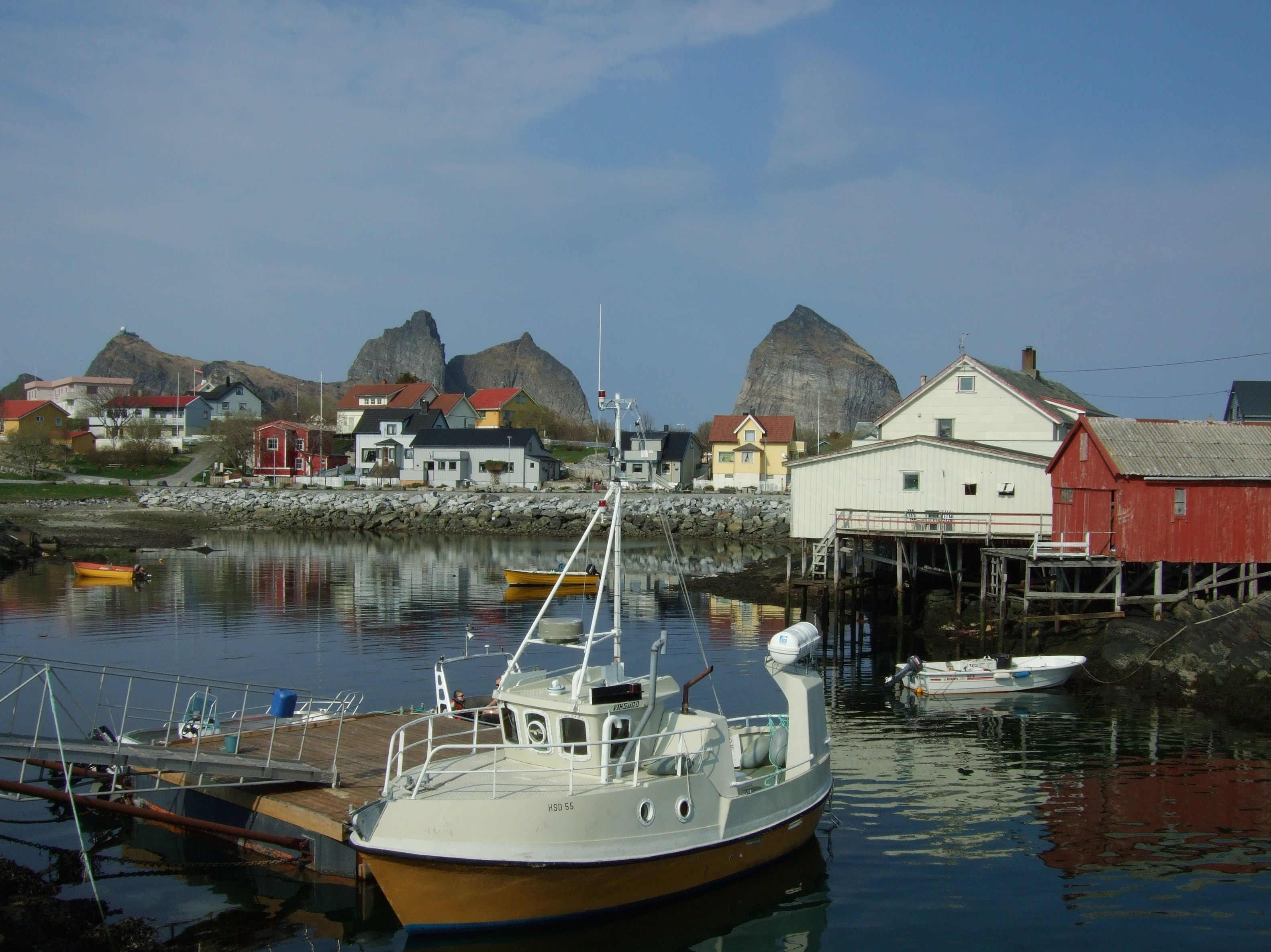 Harbour of Husøya in Træna, Norway. The mountains in the background are located on the island Sanna